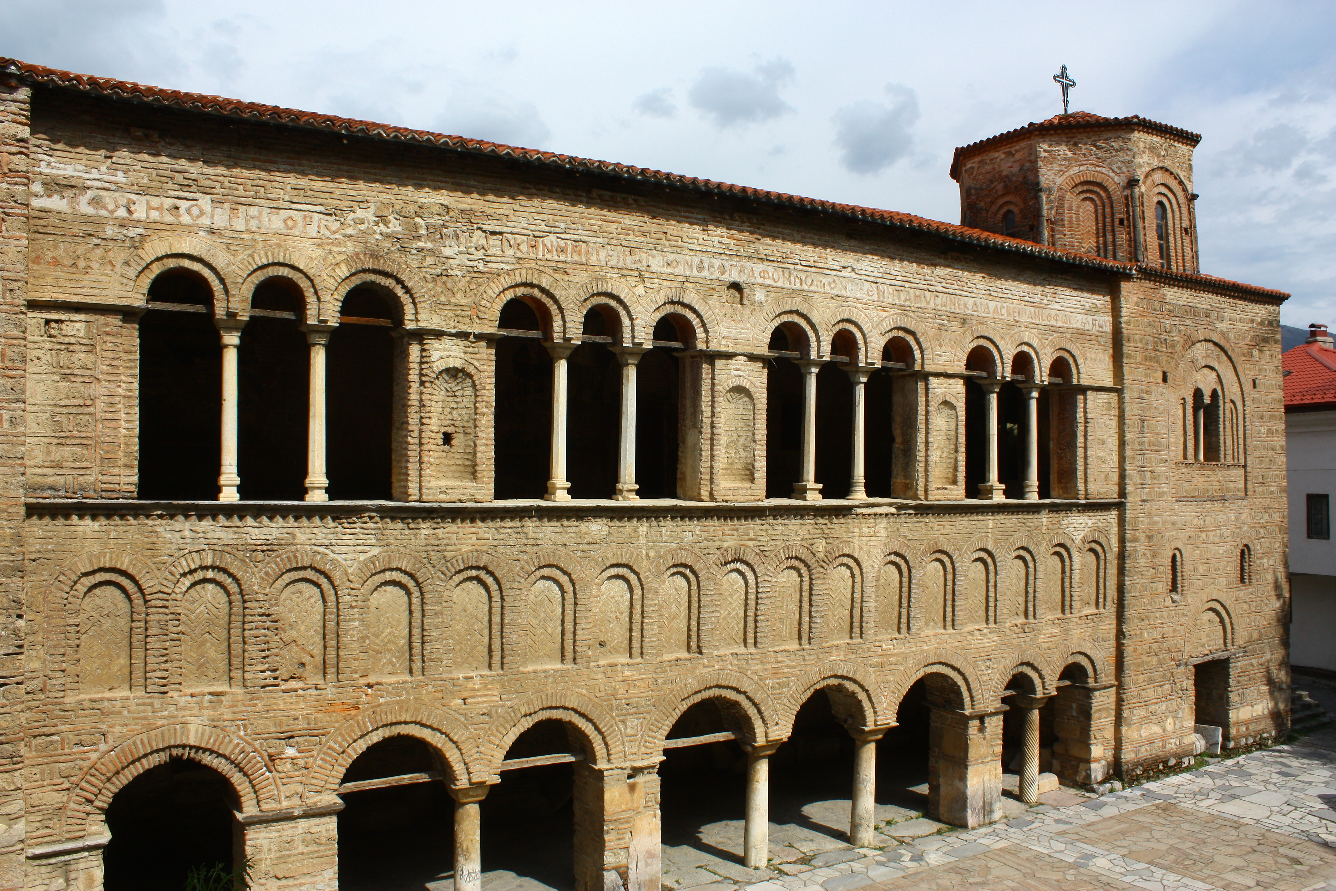 Saint Sophia Church in Ohrid, Macedonia